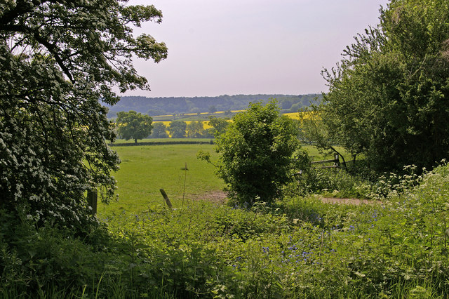 Looking across ditch to farmland, Botany Bay Farm, Enfield. Looking across ditch 795945 to entrance to field.